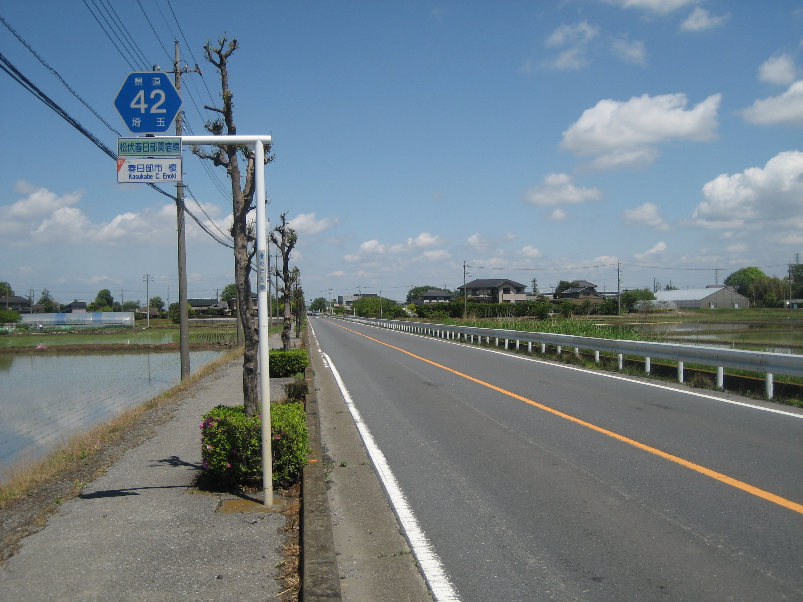 The Saitama Prefectural Road Route 42 in Enoki, Kasukabe City, view towards Sugito